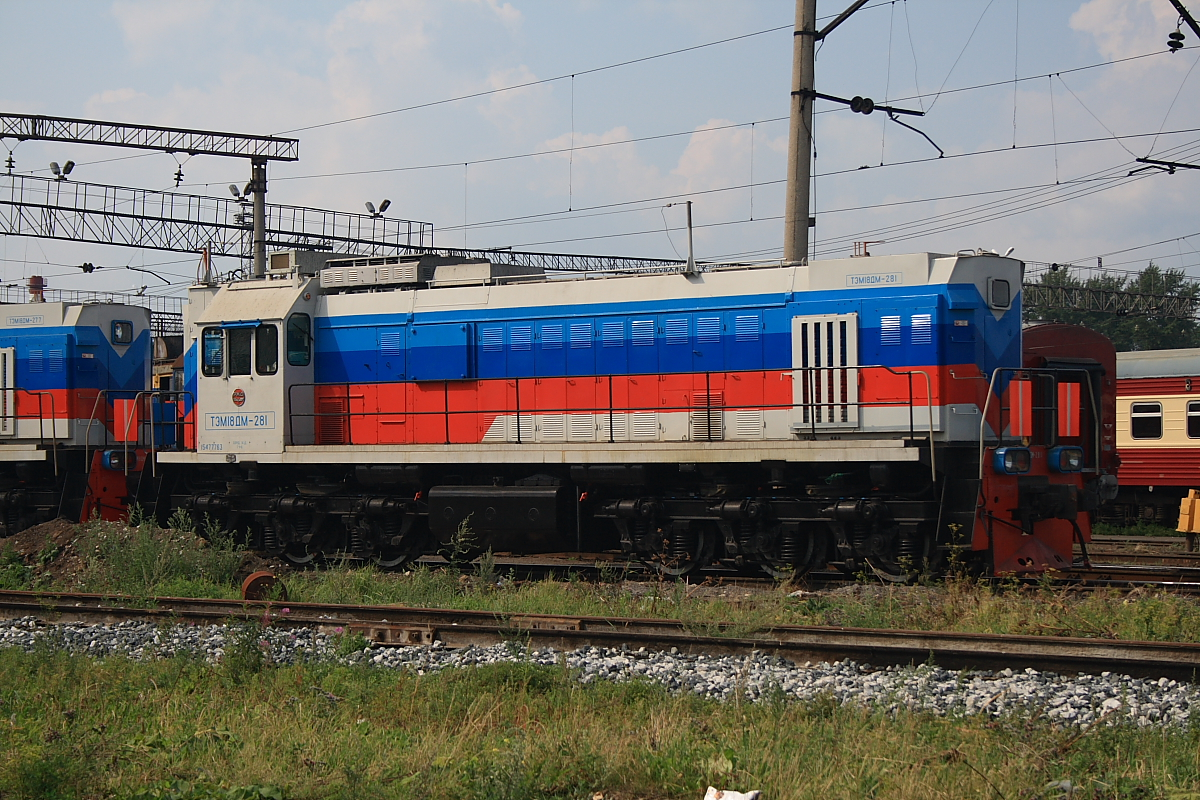 Diesel shunting locomotive TEM18DM-281